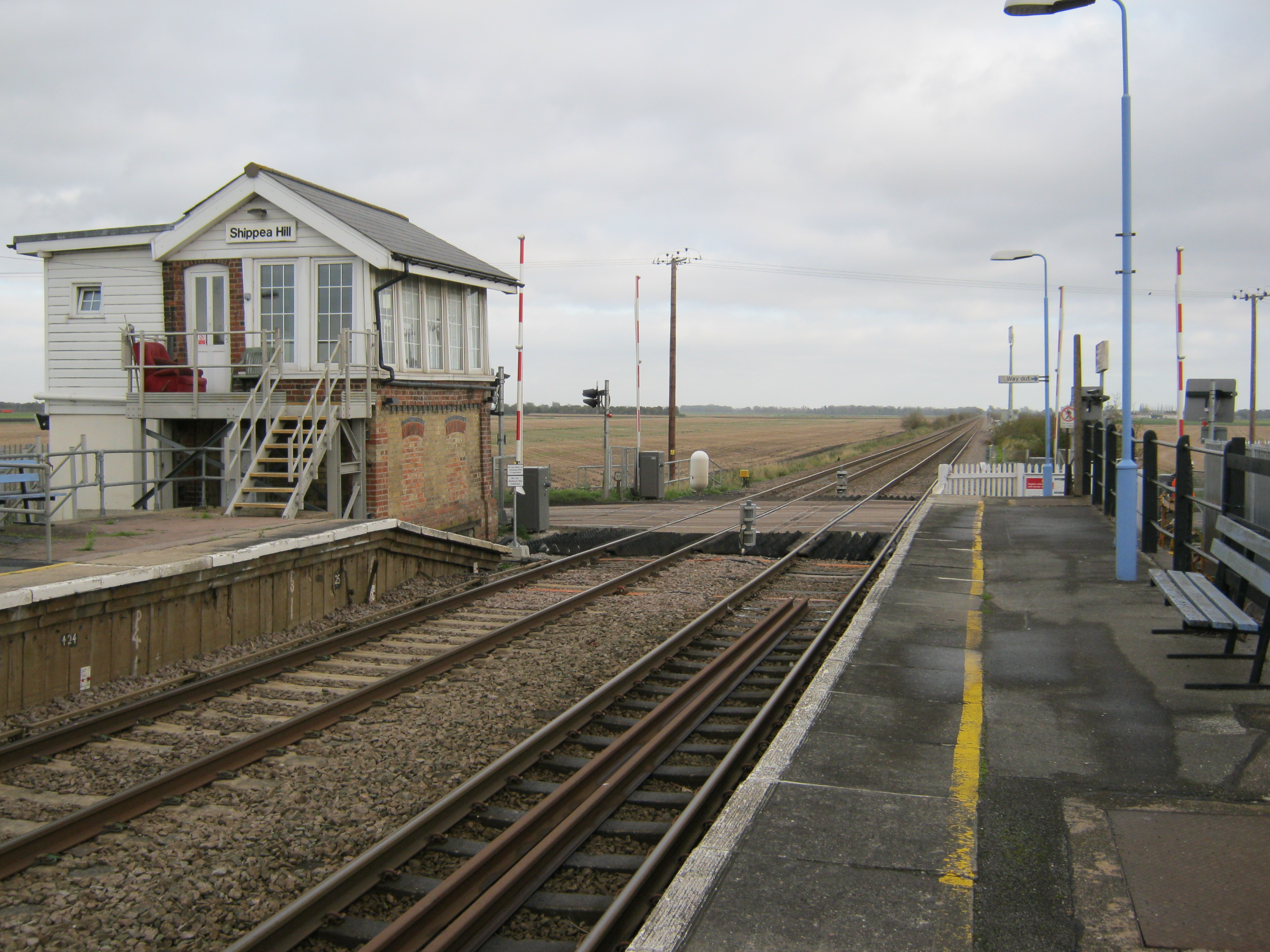 Shippea Hill station, old signal box and crossing (November 2012)